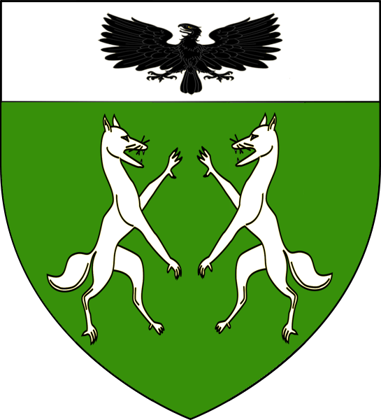 Coat of arms of the O'Donoghue of the Glens.